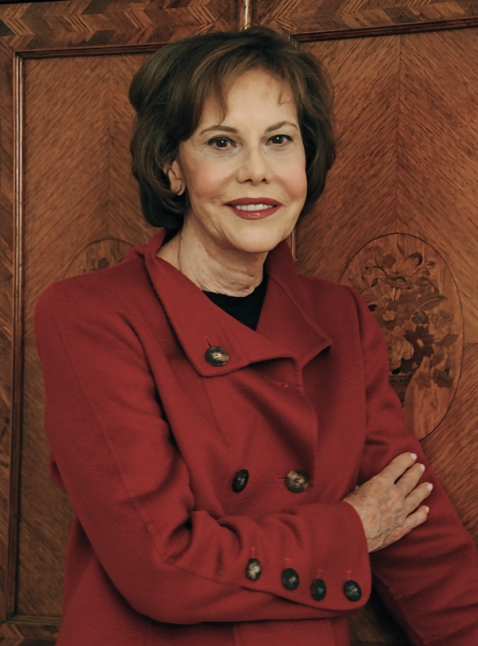 Head shot of author and historian Barbara L. Goldsmith (1931 - ).